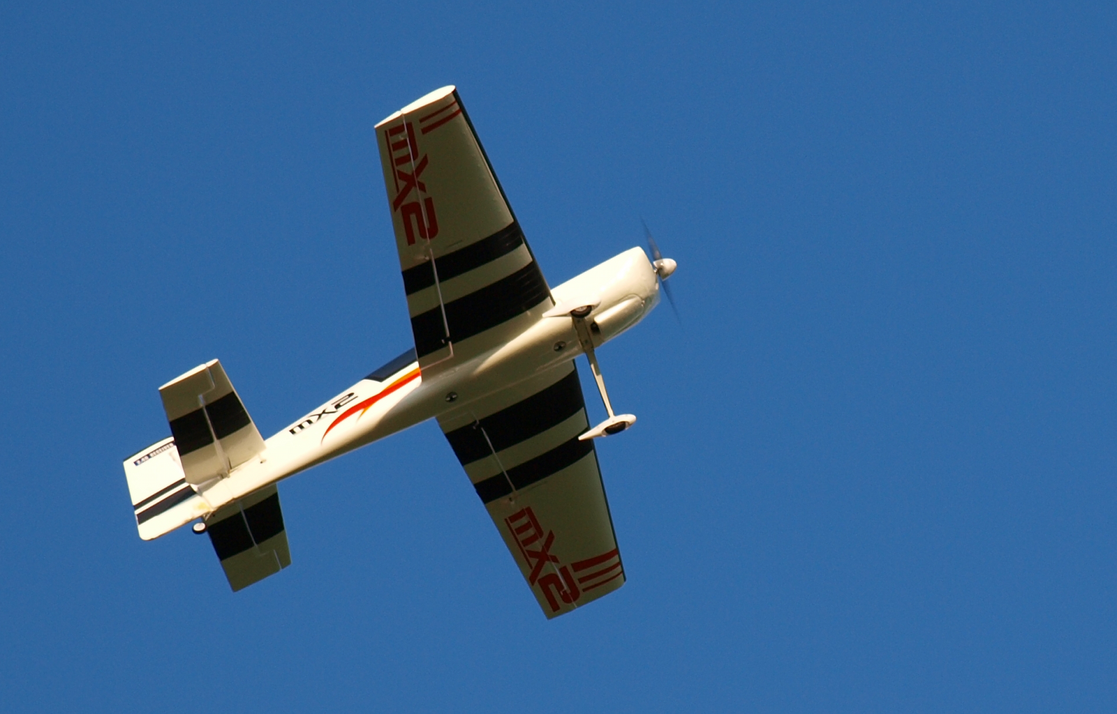 RC model aircraft in the air. This is a model of an mx2 with a wingspan of 121cm and a weigth of app. 960g.